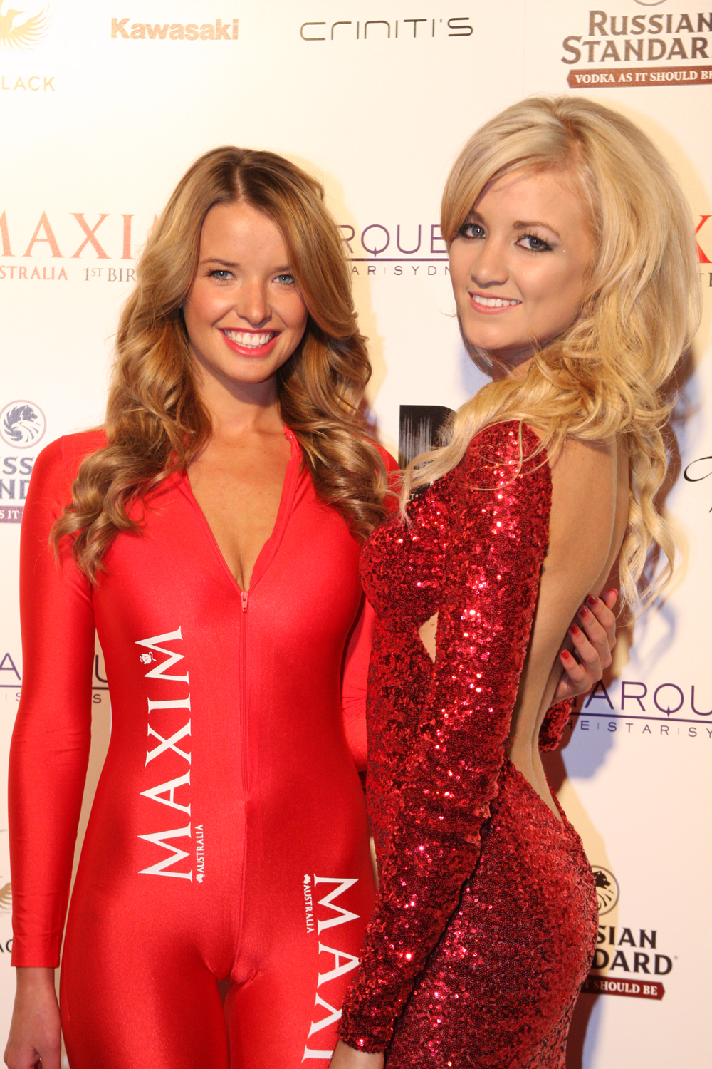 L to R: Kahili Blundell and Brittany Bloomer Maxim magazine celebrates 1st birthday at The Star, Sydney, Australia Marquee Sydney helps Maxim celebrate first birthday... Last night at The Star popular men's magazine, Maxim Australia, celebrated its first birthday. If you didn't know already, Maxim is a lad's mag, and this issue is blessed with Australian sports model, Lauryn Eagle. Did we mention Lauren is a boxer, kick boxer, water skier and more! She's also one of Australia's most popular sports models these days. The magazine and is sponsors, advertisers, models and everyone else associated with it should be happy with tonight's turn out, and any print magazine out of Australia that is still in business does have something to celebrate. Joining Lauryn were other names and celebs including Brittany Bloomer, Grant Dwyer, Rochelle Fox, Nacho Pop, Brittany and Anthony Cairns, Annalise Braakensiek. Well done to everyone involved in tonight's birthday success. Wrap Up... The Star's tag line is 'There will be stories', and its a sure bet Star will keep living up to that if tonight was any indication. A casino matched with Maxim Australia, a media pack, models and more - that's going to make news. Websites The Star Echo Entertainment Maxim Australia Music News Australia Eva Rinaldi Photography